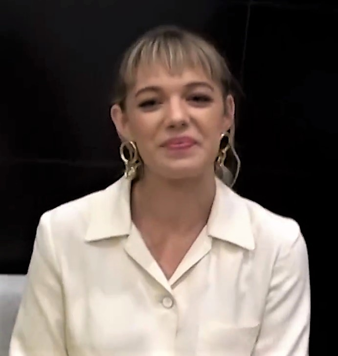 🍭 Sadie Calvano & Luke Spencer share how they made it & what's ahead by Dulce Osuna